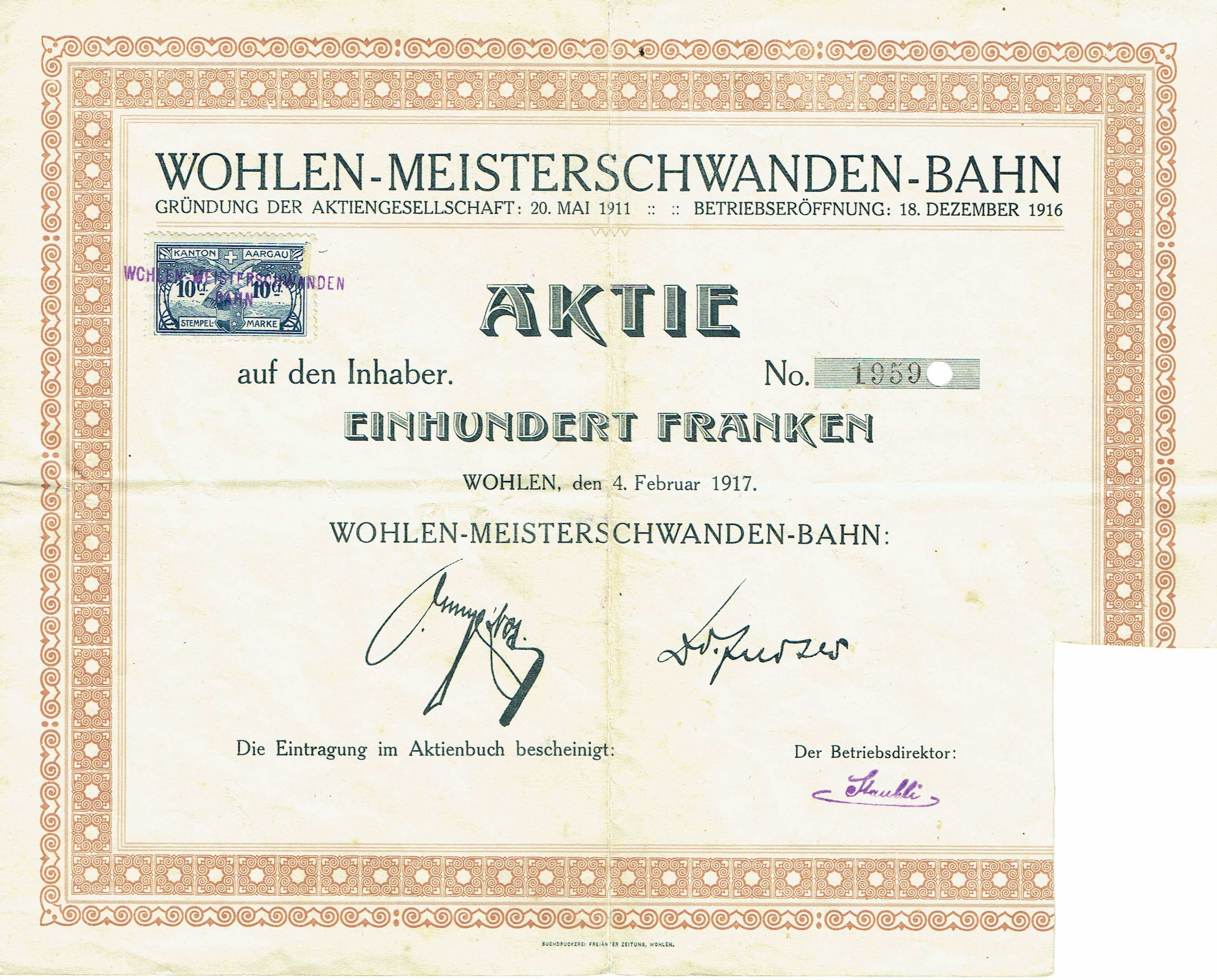 Share of the Wohlen-Meisterschwanden-Bahn, issued 4. February 1917